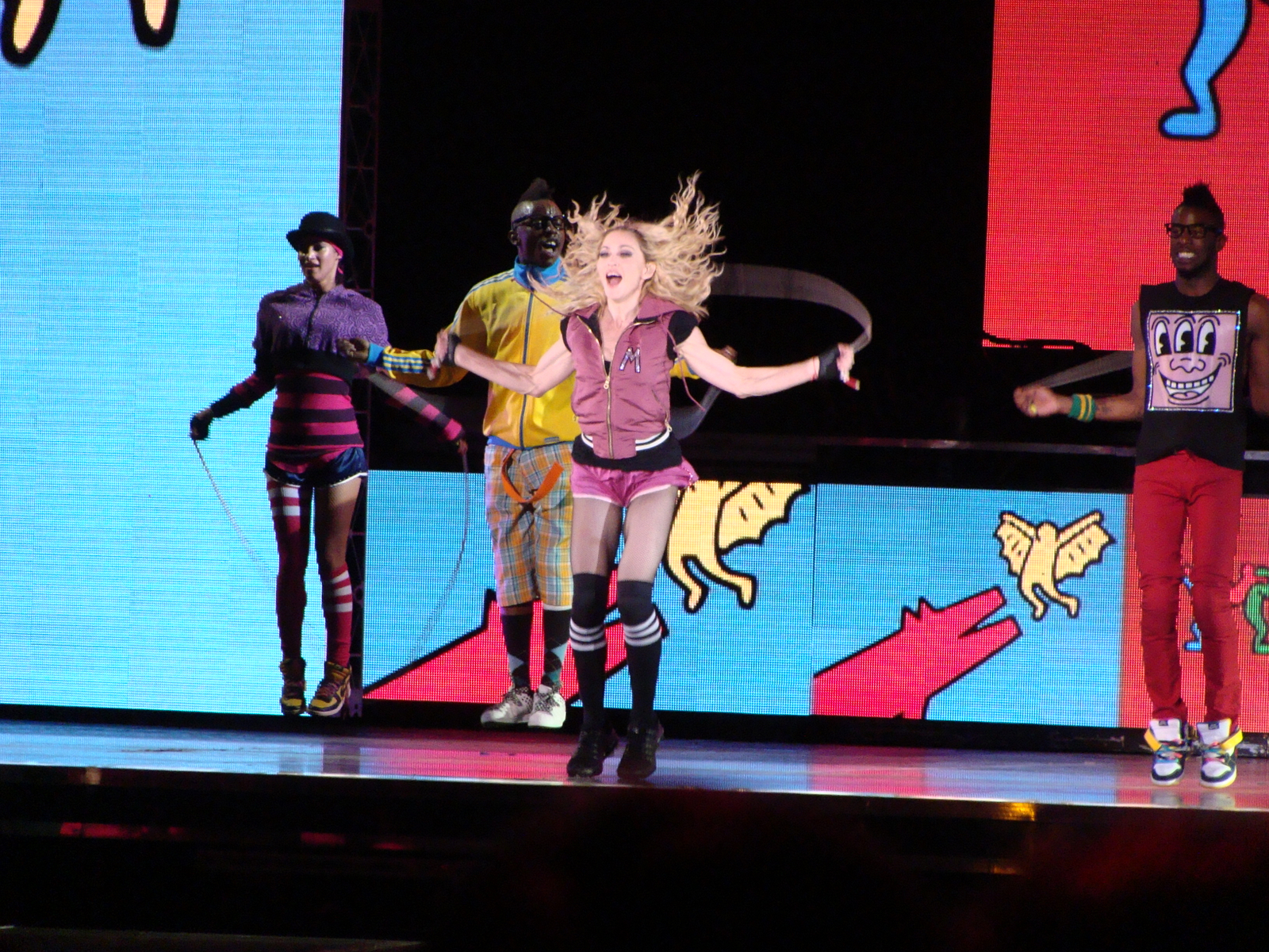 Photo taken at the concert